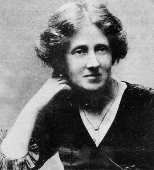 Edith Annie Howes (29 August 1872 – 9 July 1954) was a New Zealand teacher, educationalist, and writer of children's literature in the early 1900s